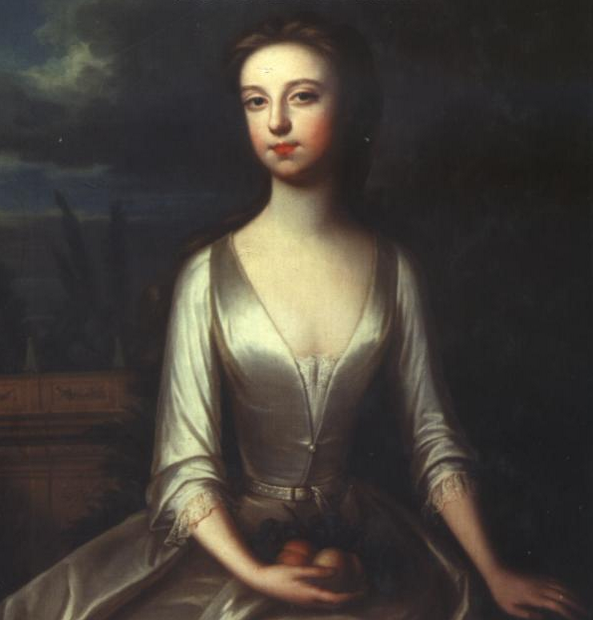 Lady Diana Spencer in Van Dyck costume, wearing white satin. Painted prior to her marriage.